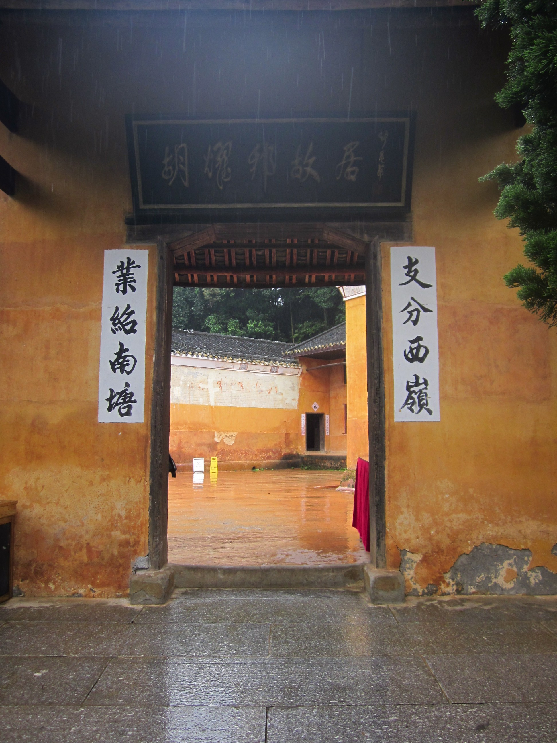 Hu Yaobang's Former Residence (Chinese: 胡耀邦故居), located in Liuyang City, Hunan Province, is one of the famous tourist attractions in China.